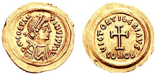 Tiberius II Constantine, 578-582 AD. AV Tremissis 1.51 gm. Ravenna mint. Dm COSTANTINVS PP AV, pearl diademed, draped, cuirassed bust right, heavy annular border / UICTOR TIbERI AVS, cross potent, mintmark CONOB. DOC 64, MIB I 17, SB 470.